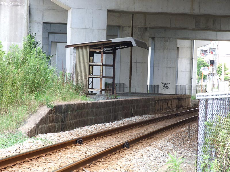 Ruin of Chikugo-Ogori Station of Amagi Line, Japanese National Railways